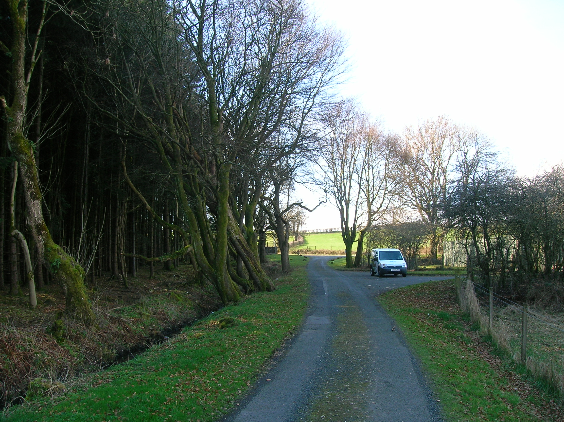 The Pitcon road end, Drakemyre, North Ayrshire, Scotland